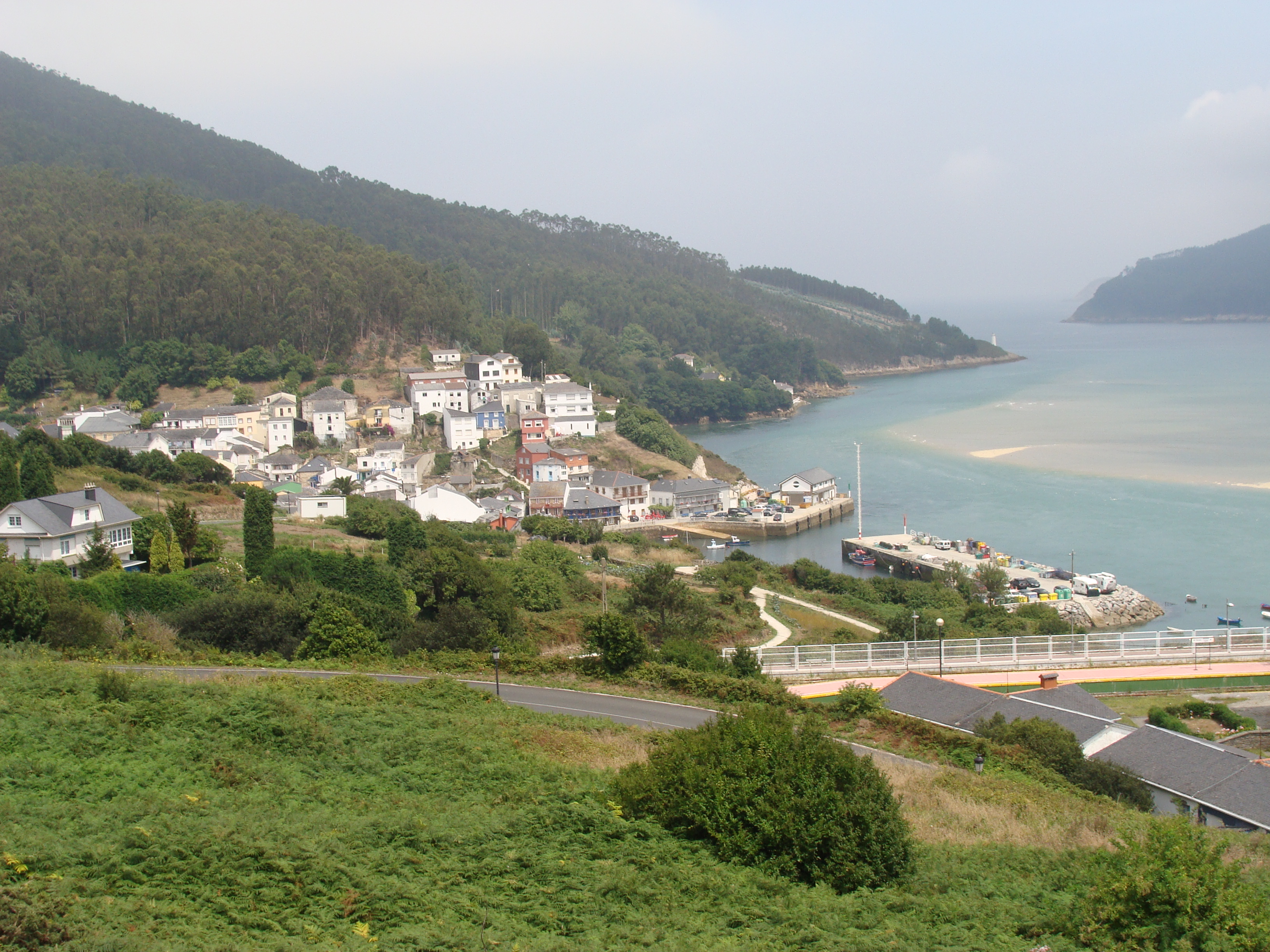 O Barqueiro (Mañón), Corunna, Galicia, Spain.